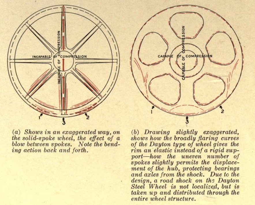 Design sketch of the cast steel wheel by George Walther that was granted a U.S. Patent on Dec 13, 1913. Sketch shows how a wheel with odd number of spokes can better handle truck cargo weight and road shocks than a wheel with an even number of spokes.